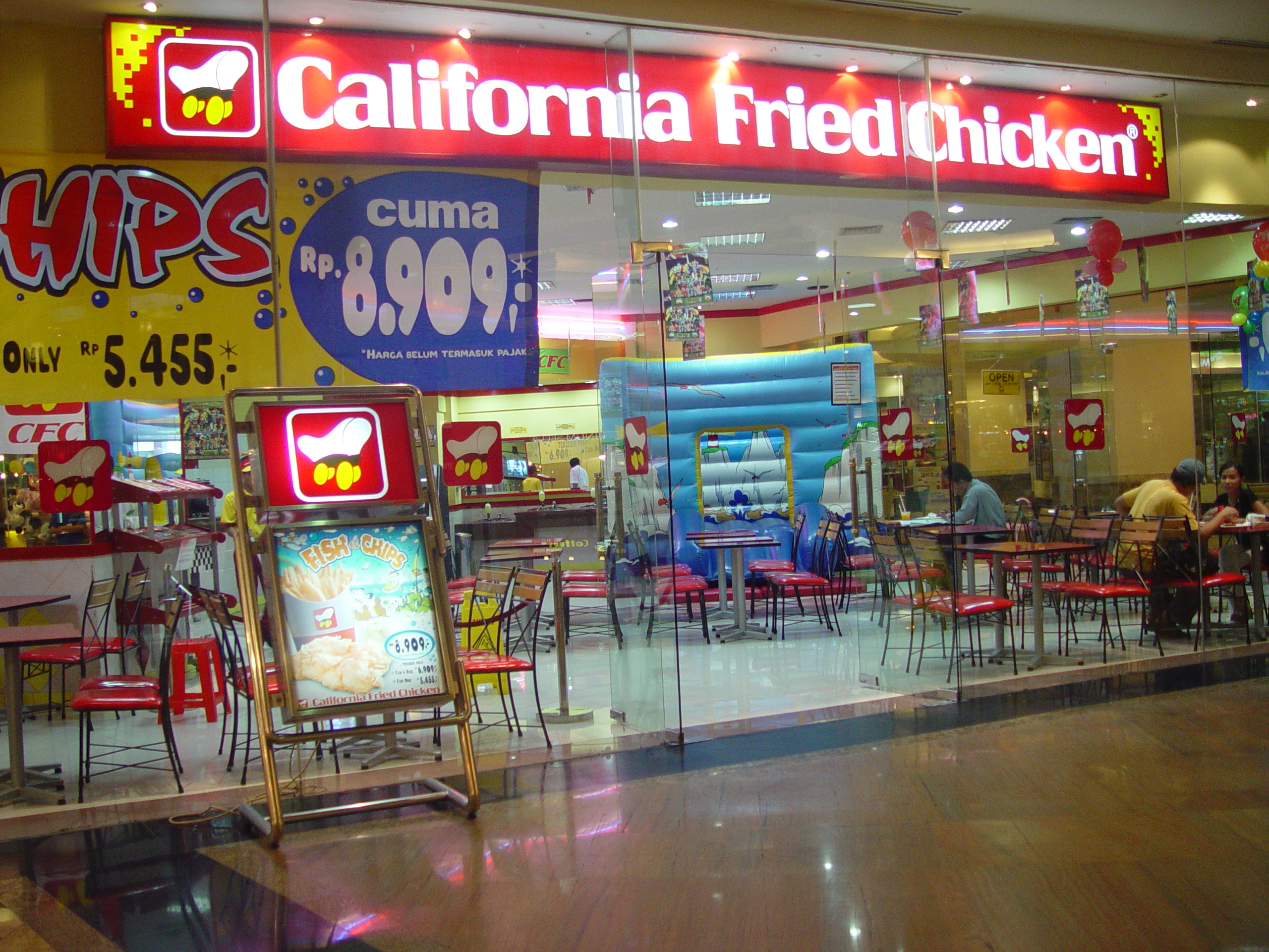 Mall cultural in Jakarta, Indonesia.